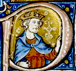 Peter III of Aragon